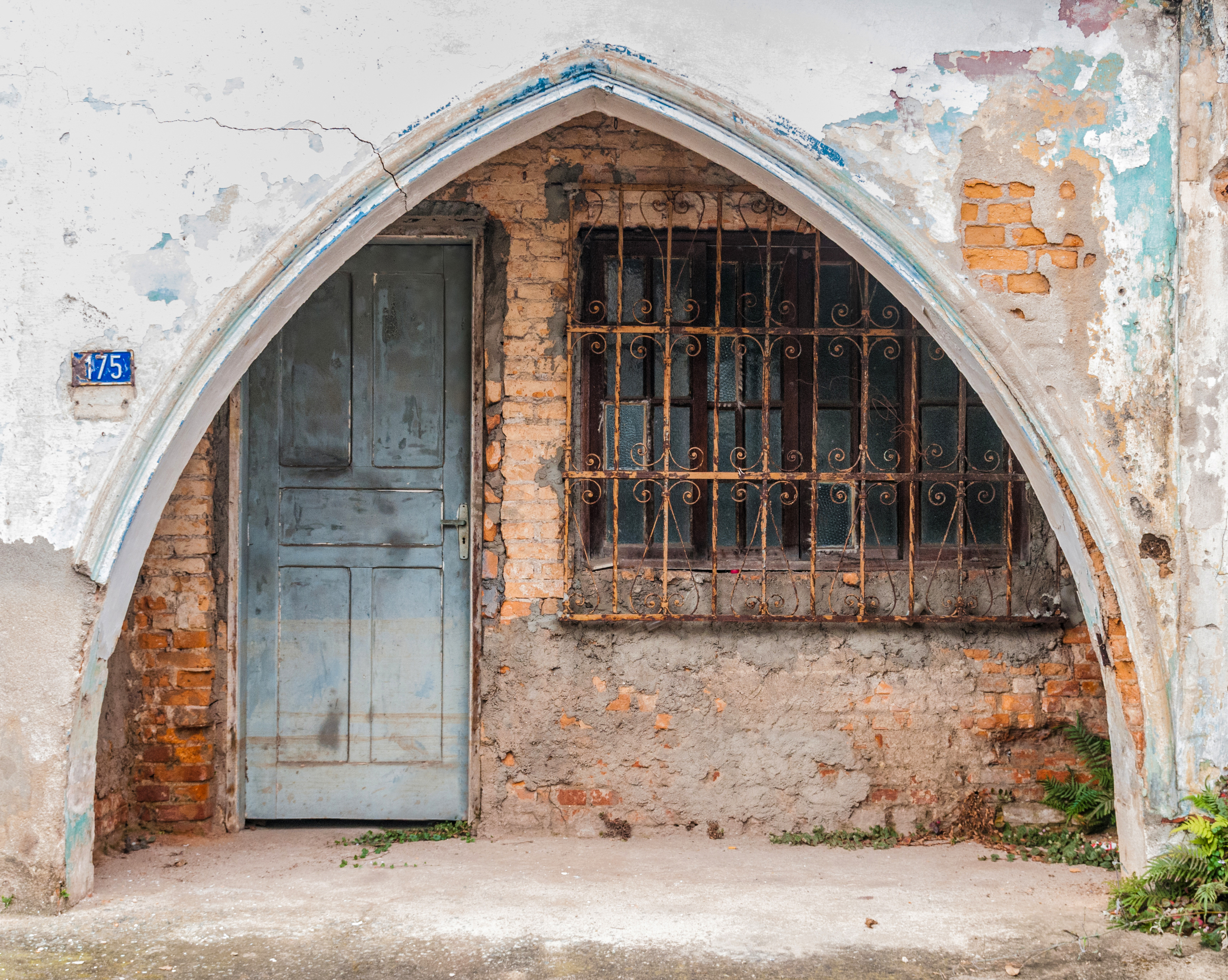 Colonial house, Rua Tristão Mariano 175, Bosque da Saúde, São Paulo, Brazil